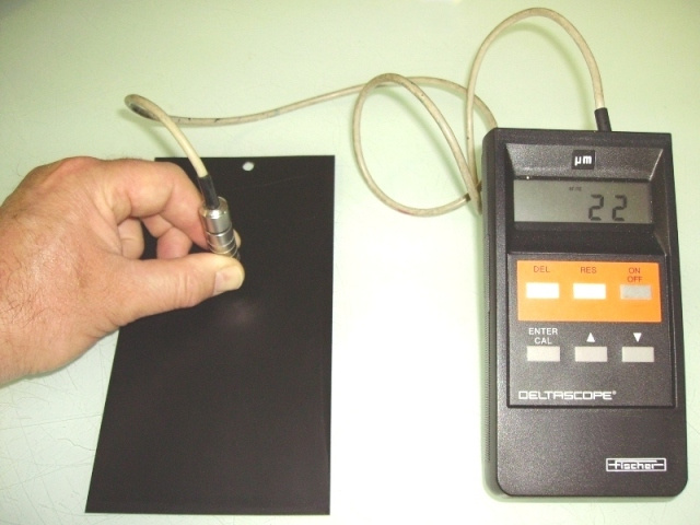 Fischer model Deltascope: portable micrometer for measuring coating thickness by magnetic induction. Measuring the thickness of a phosphate and cataphoresis coating (result = 22 µm) over an automotive steel sheet (about 1 mm thickness). The final (thus visible) cured cataphoresis layer is here black.